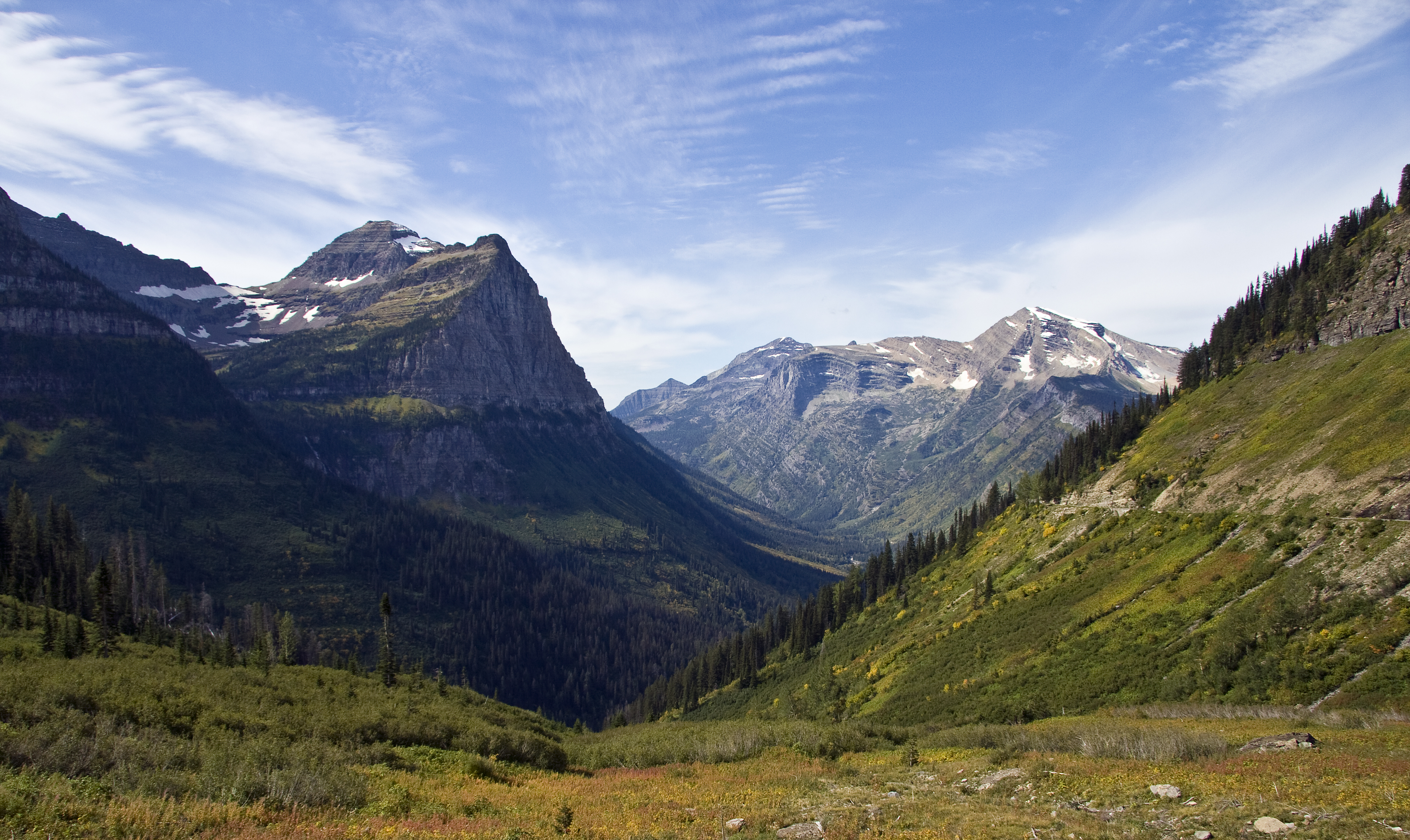 McDonald Creek Valley, Mount Cannon at center left and Heaven's Peak on right from the Going-To_The-Sun Road, Glacier National Park, Montana, USA